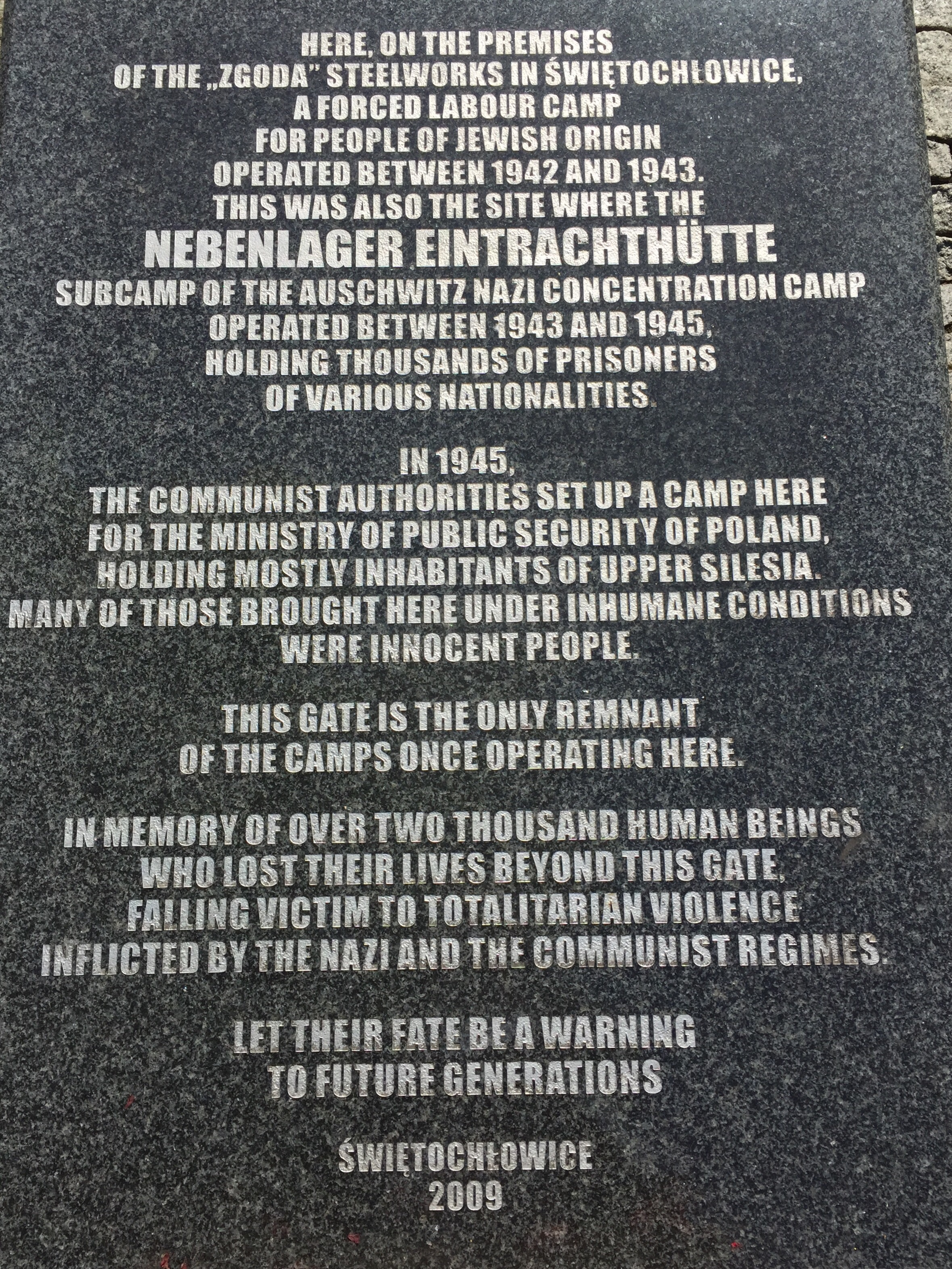 Plate on the monument - concetration camp Zgoda, Świętochłowice, Poland